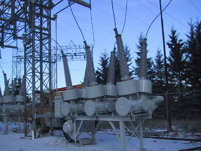 A 3 phase 115 kV 1200 A circuit breaker, SF 6 type, mounted outdoors at the substation near the Manitoba Hydro Slave Falls generating station. Current enters and leaves the breaker through the bare wire leads terminating on the top of the insulator bushings. The horizontal cylindrical tanks contain the interrupters which operate in an envelope filled with sulfur hexafluoride (SF6) gas. The control cabinet for the breaker is on the left side of the unit, which contains the mechanism that opens and closes all three poles at the same time. Unlike smaller breakers used in low voltage systems, the over current sensing relays are always separately mounted in this form of breaker. Part of the steel lattice structure of the station can be seen, as well as part of another breaker at the left side of the picture. Picture taken from Circuit breaker.